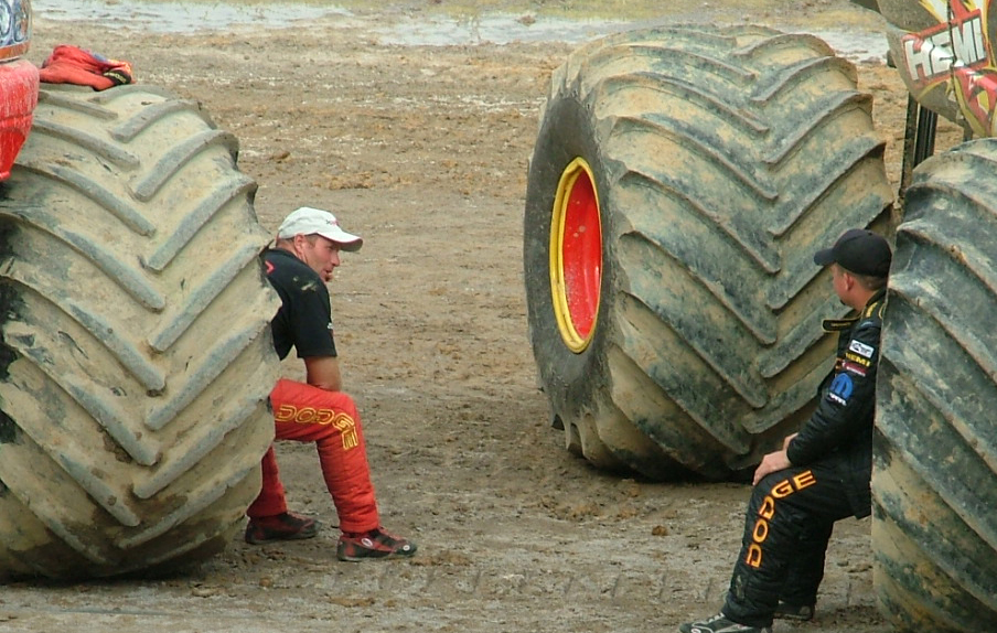 The Dodge Boys taking a short rest before the next show at Canfeild OH